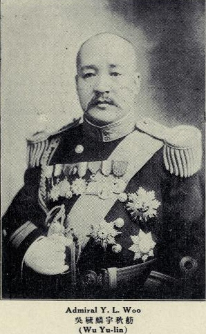 Wu Yulin, Qiufang (born 1869)